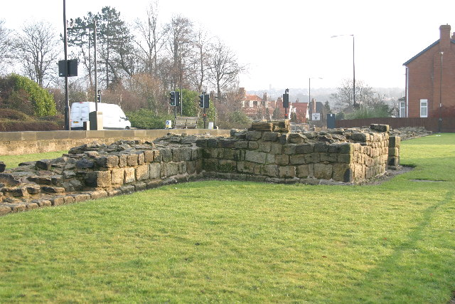 Denton Hall Turret on the Roman Wall.